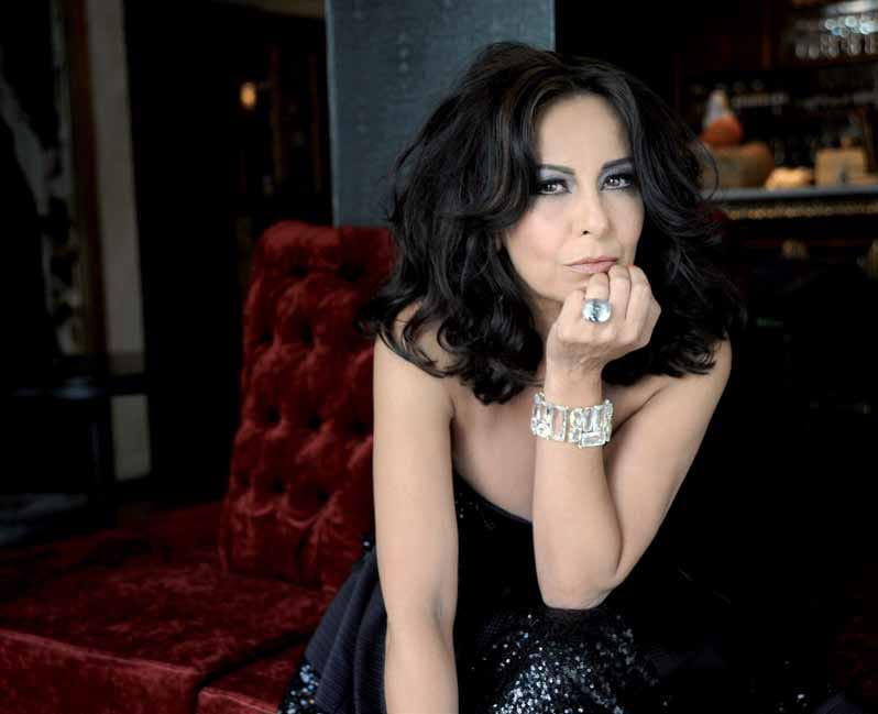 Evelyne Agoel, BY EITAN TAL